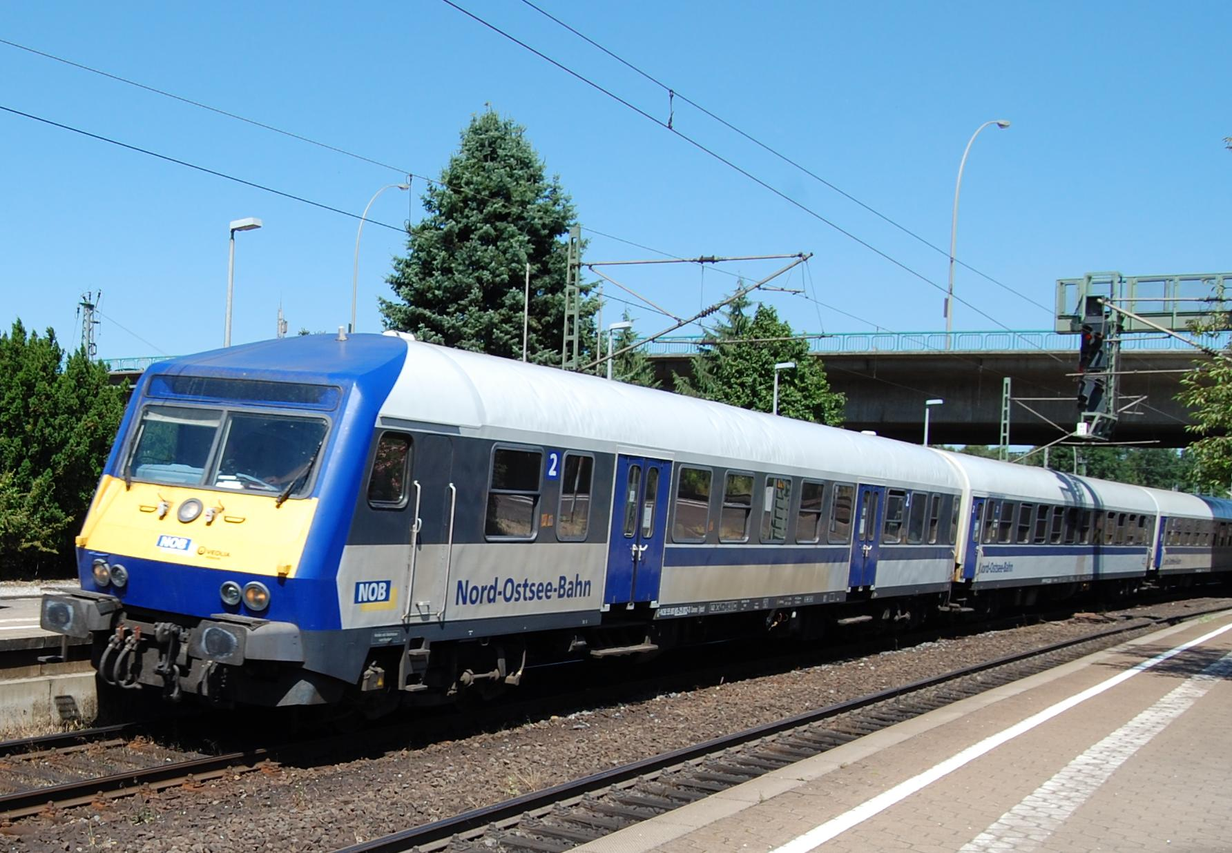 Hamburg-Köln-Express train (HKX 1812) at Hamburg-Harburg station.